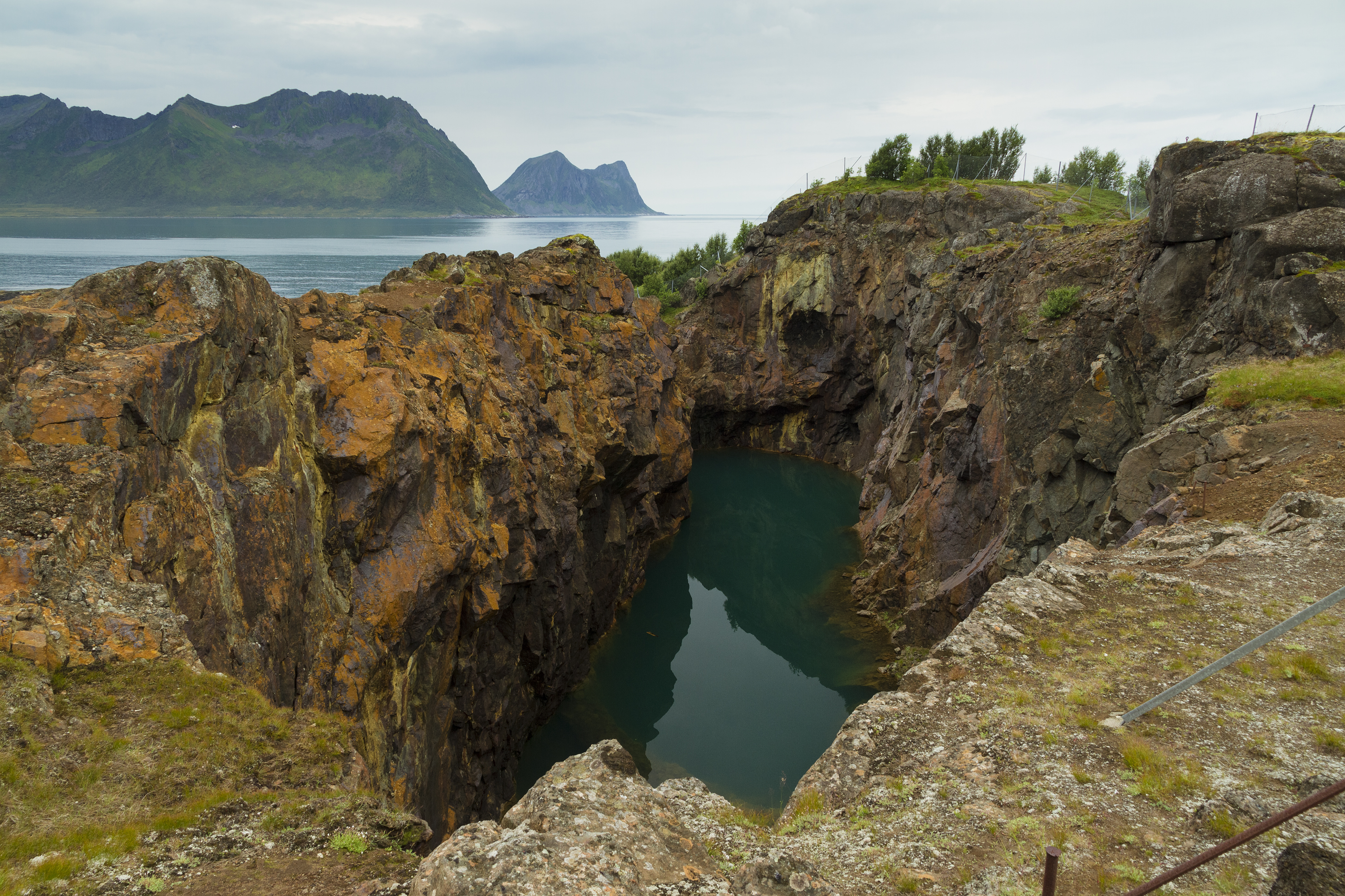 Nickel mine at Hamn, Berg municipality, Senja, Troms, Norway in 2014 August.